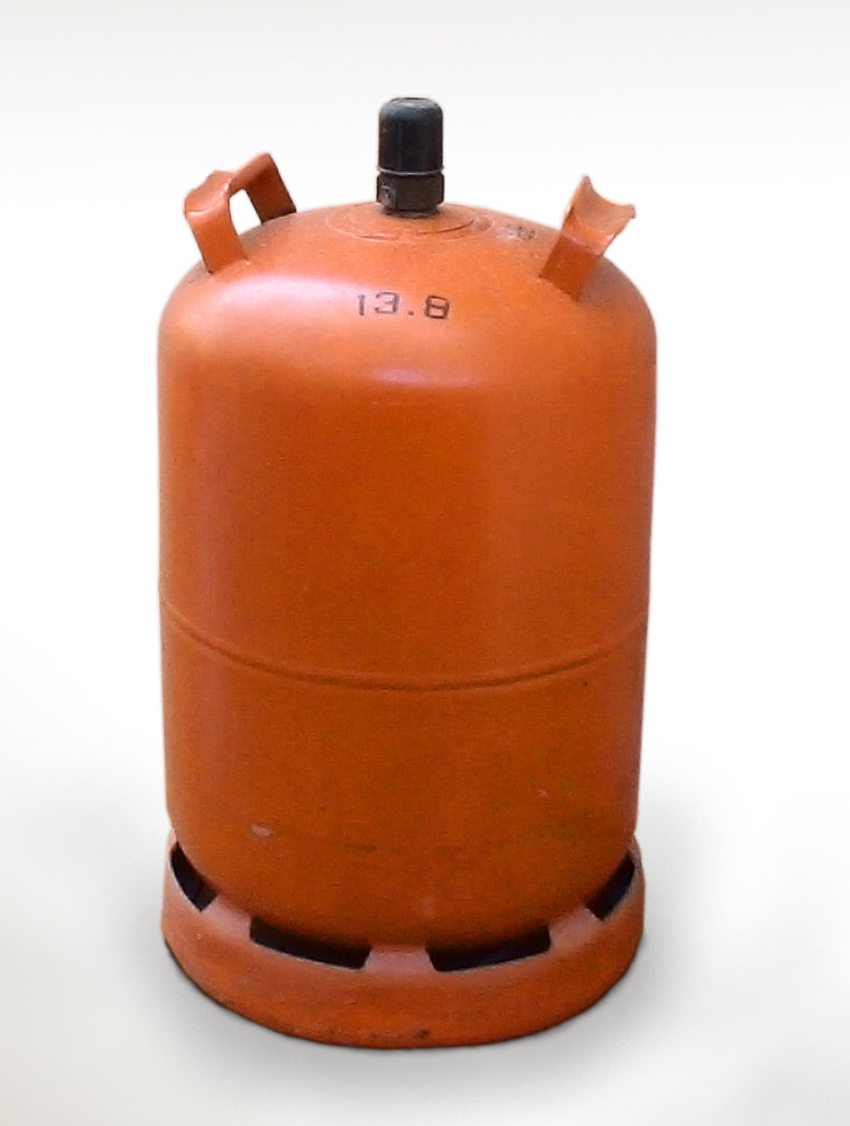 Butane gas cylinder on white background